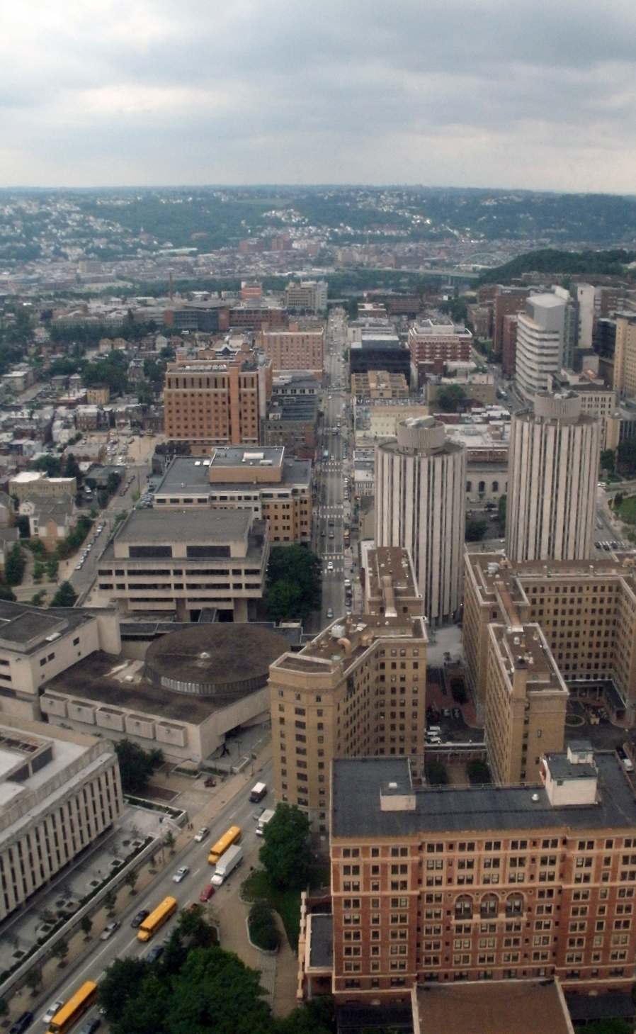 University of Pittsburgh, main campus in Oakland